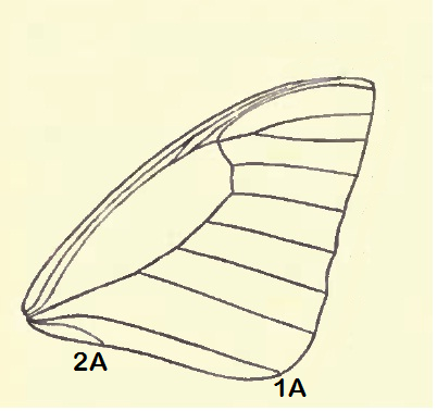 Forewing of butterfly Four-bar Swordtail, Graphium agetes, Family Papilionidae with first and second anal wings shown. This is one of three identification characterstics of the family. See Papilionidae for more information. Based on image taken from page 100 of Bingham. C.T. (1905) Butterflies (Vol 1). Bingham, C.T. (1905). The Fauna of British India including Ceylon and Burma - Butterflies (Vol 1), pages 519, London: Taylor and Francis. Retrieved from on 07 November 2010. (public domain as per United Kingdom laws).